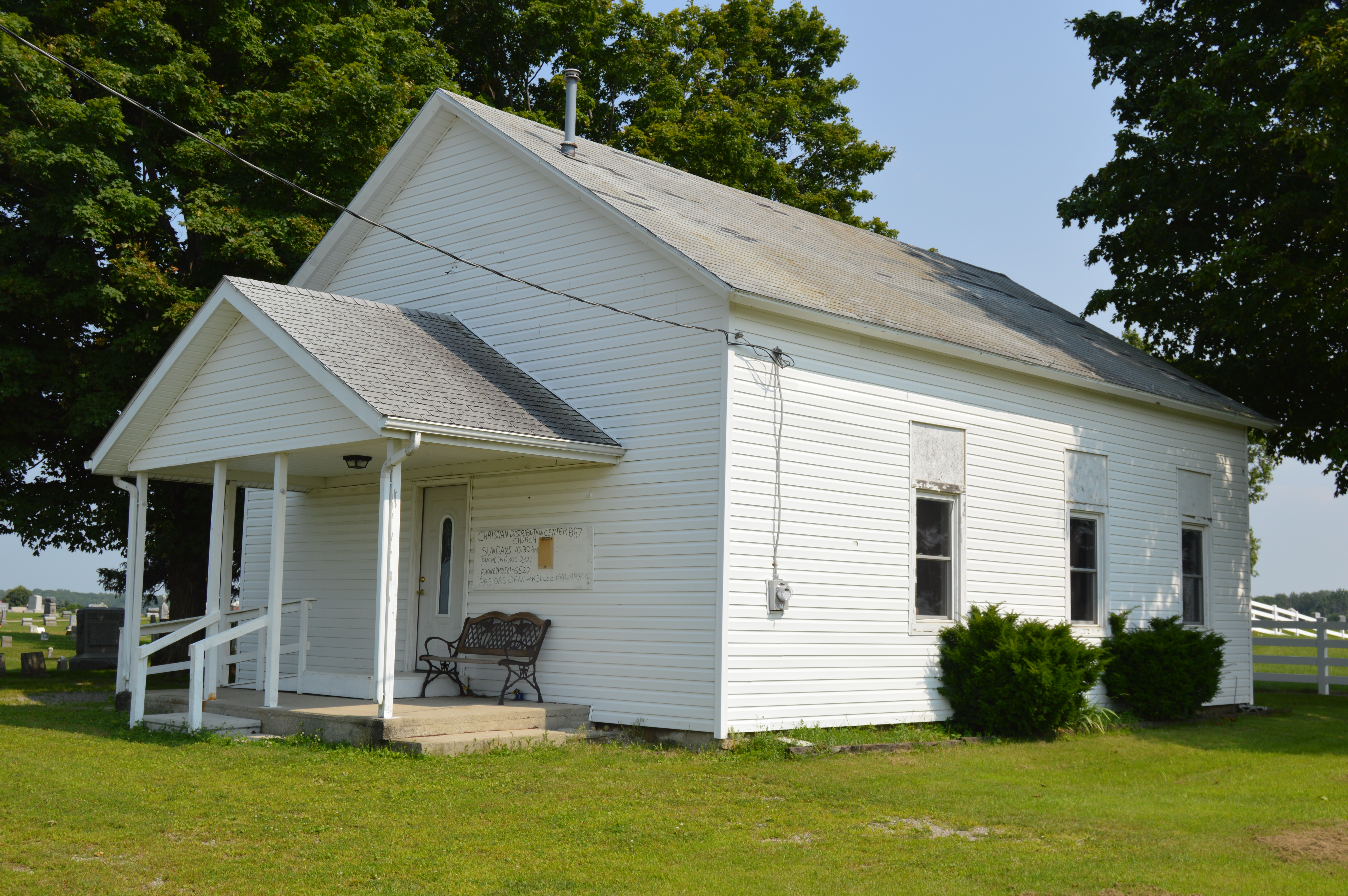 Front and western side of the Christian Distribution Center Church (formerly Pleasant Hill Church), located on Township Road 109 southwest of Van Buren in Portage Township, Hancock County, Ohio, United States.